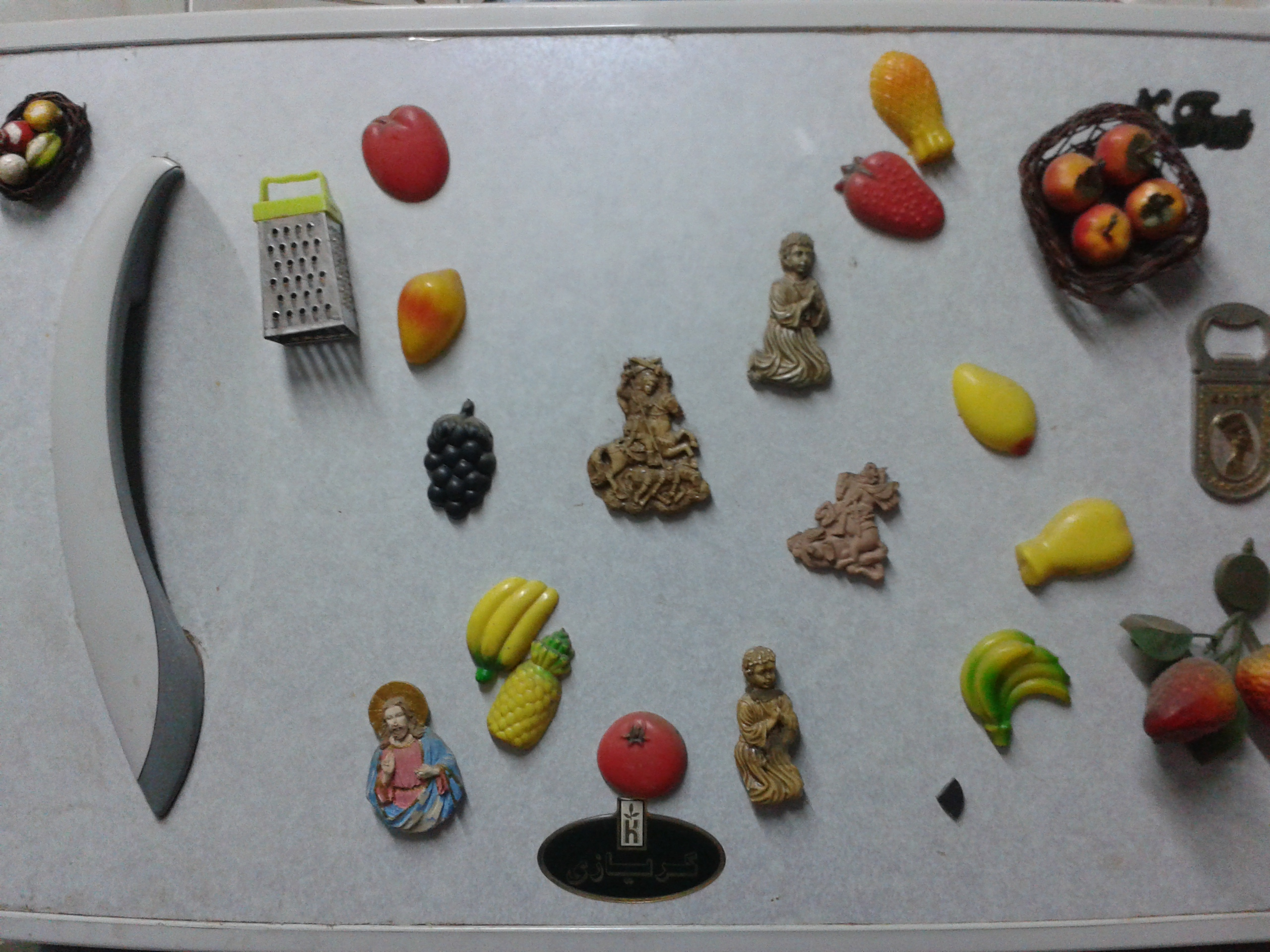 Refrigerator magnet